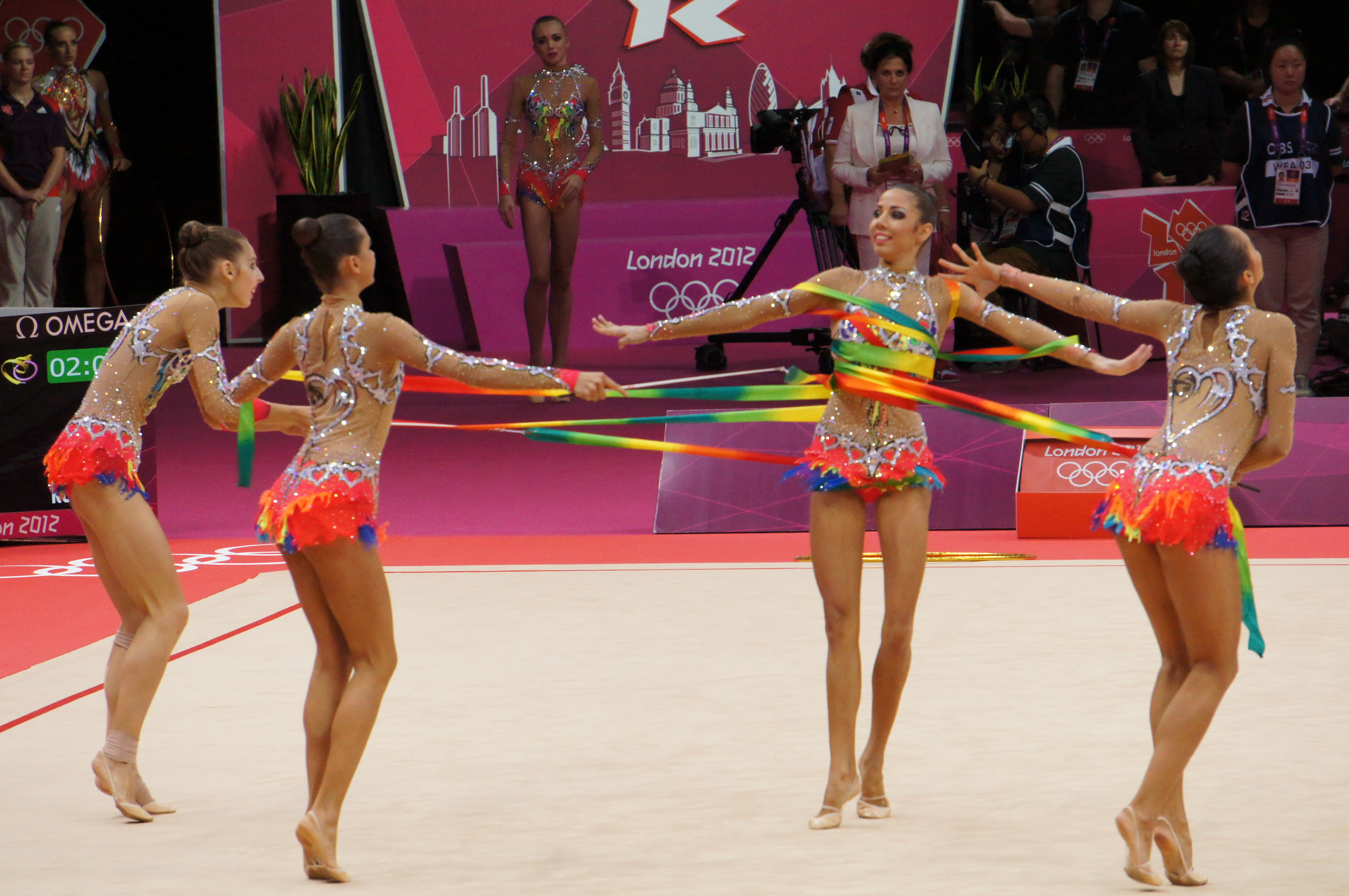 Rhythmic gymnastics at the 2012 Summer Olympics